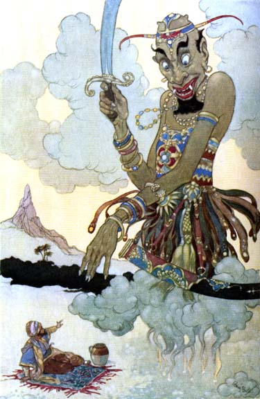 The stories for Arabian Nights Entertainments were published by "Longmans, Green, and Co., London, in 1898, by Andrew Lang(1844-1912). The Color Illustrations are by Rene Bull(1870-1946) the lager Black & white images are by Henry Justice Ford(1872-1941)